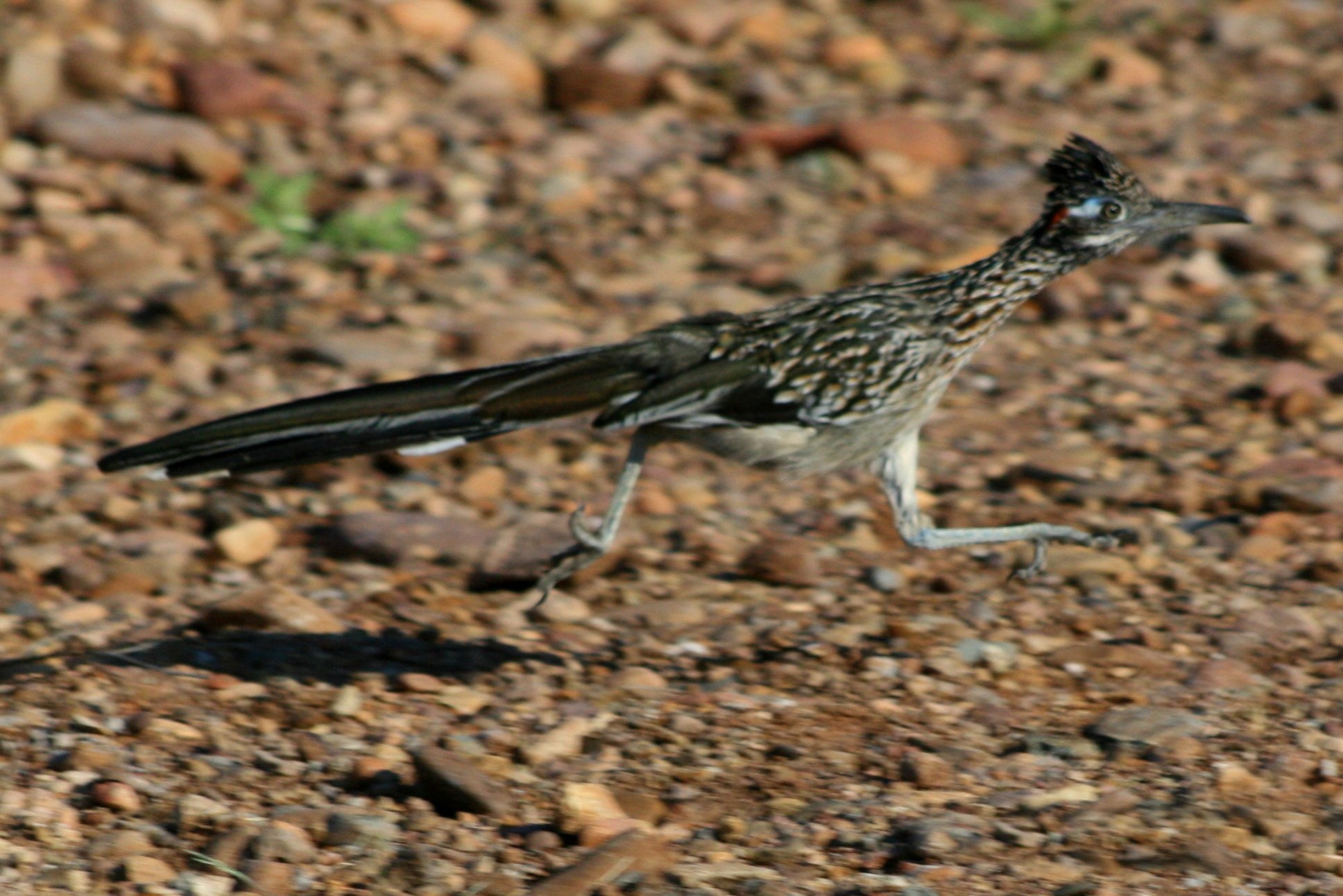 Geococcyx californianus, running. Huépac, Sonora, Mexico.